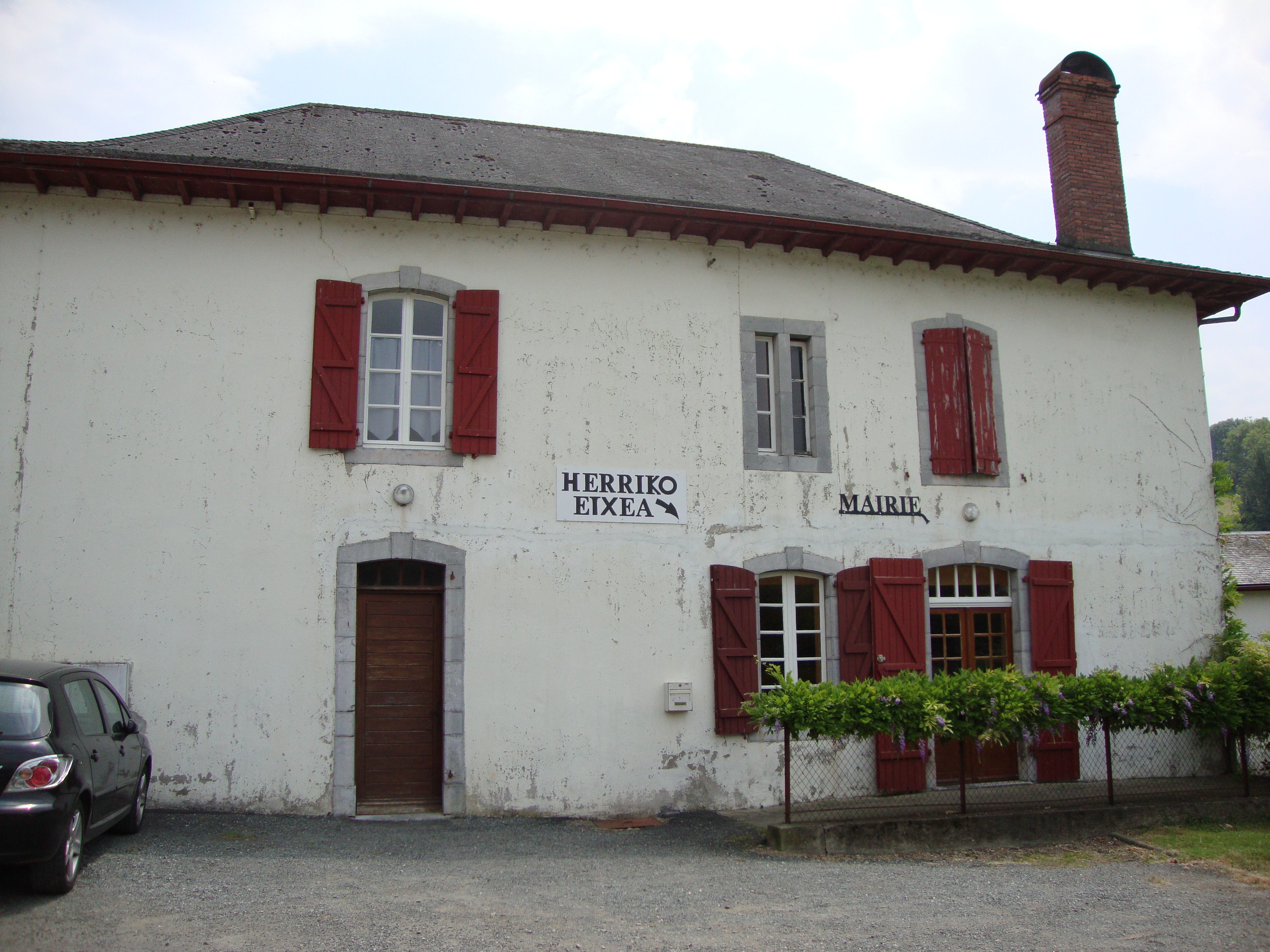 Ordiarp (Pyr-Atl, Fr) toewn hall.